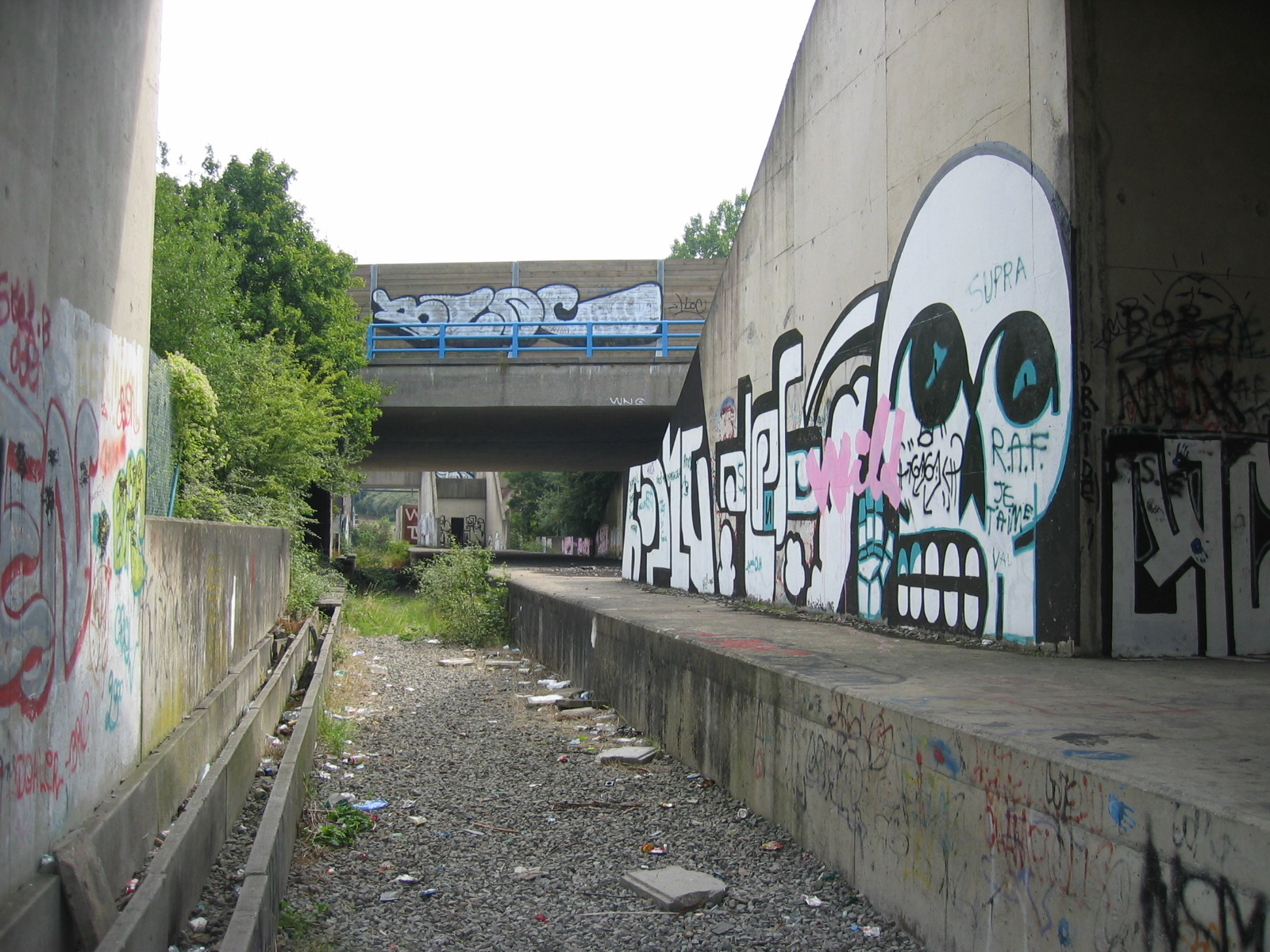 Station Sart Culpart (Planned as Soleilmont) on the Gilly line of the Métro Léger Charleroi (Charleroi Subway) was never completed. The unused parts of the Charleroi Subway are heavily graffitied. Shot by IIVQ